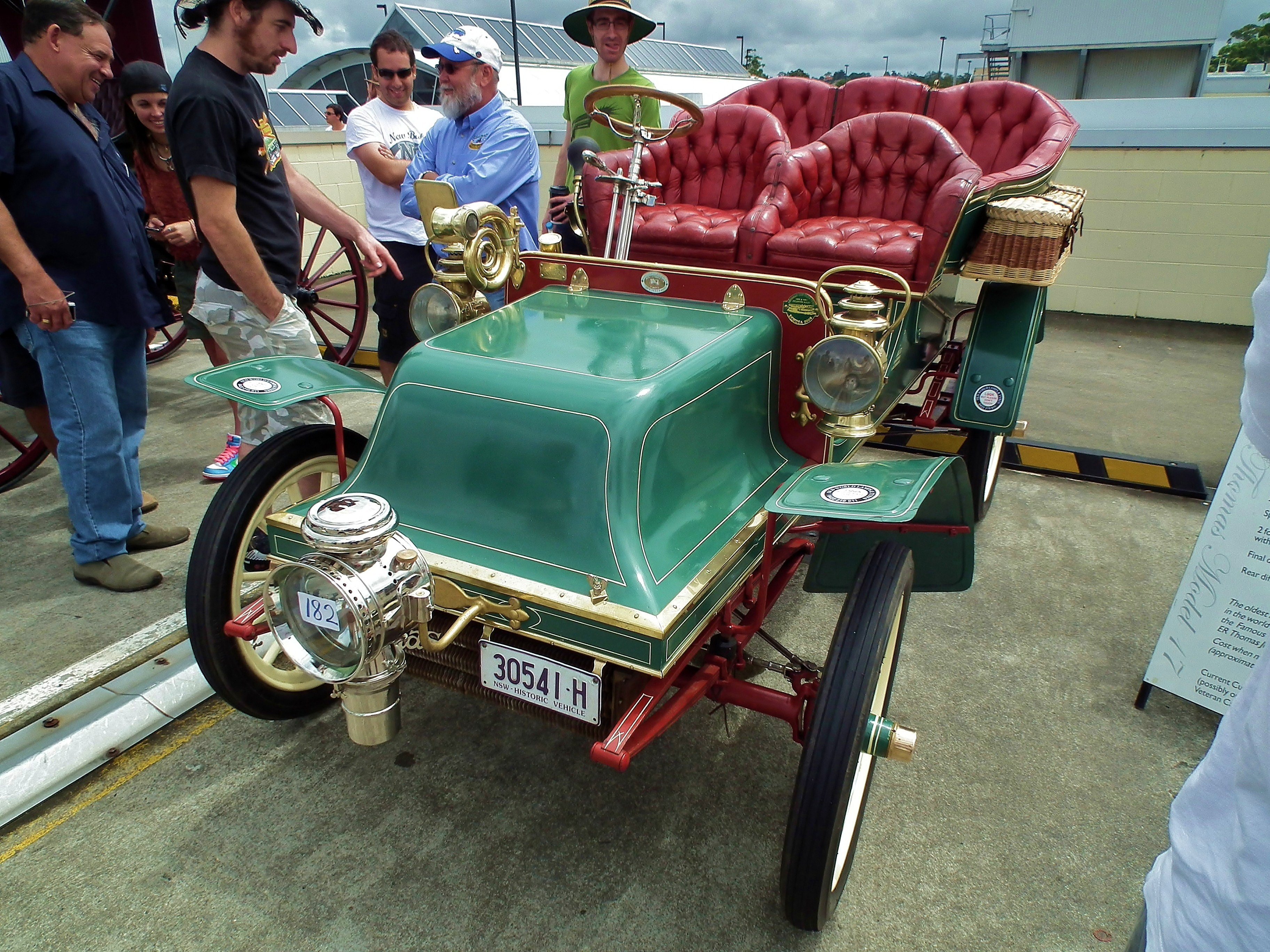 1902 Thomas Model 17 tonneau. The oldest known surviving example of the E. R. Thomas Motor Company in the world, and believed to be the car used by E. R. Thomas Jnr to convey his bride on their honeymoon. Taken at the 2012 New South Wales All American Day, held at Castle Towers Shopping Centre, Castle Hill, Sydney.